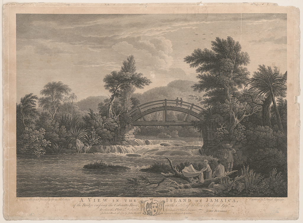 Title: A view in the island of Jamaica, of the bridge crossing the Cabaritta River, on the estate of William Beckford Esqr Physical description: 1 print. Notes: This record contains unverified data from PGA shelflist card.; Associated name on shelflist card: Lerpiniere, Daniel.